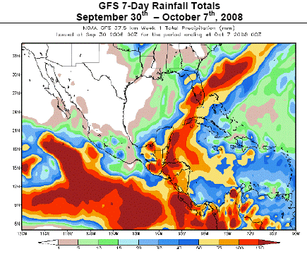 GFS 7-Day Rainfall Totals September 30th - October 7th, 2008